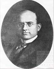 A portrait of Lebbeus Wilfley during his time as Attorney General of the Philippines.